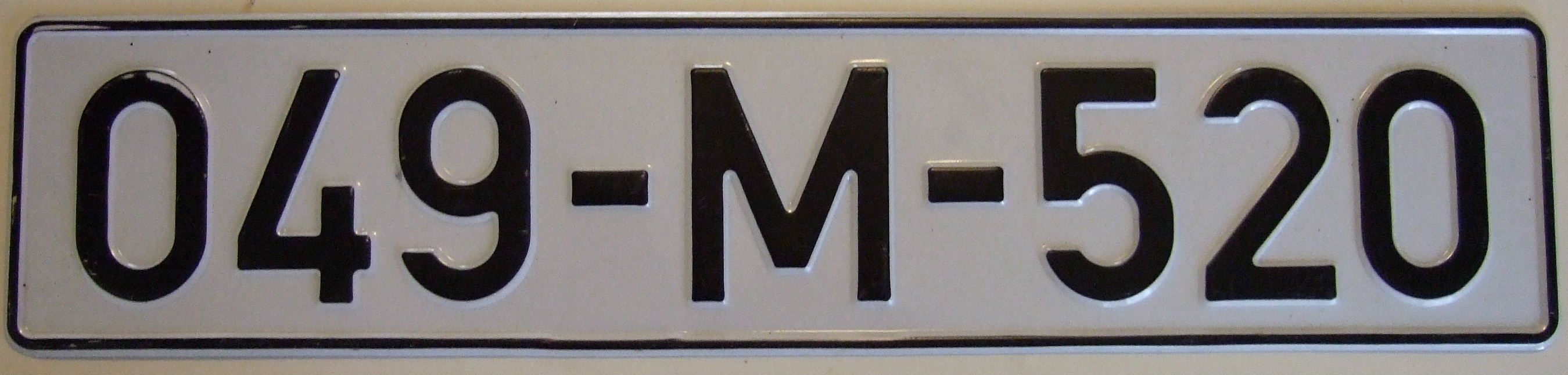 All plates with this issue are centrally issued from Sarajevo.